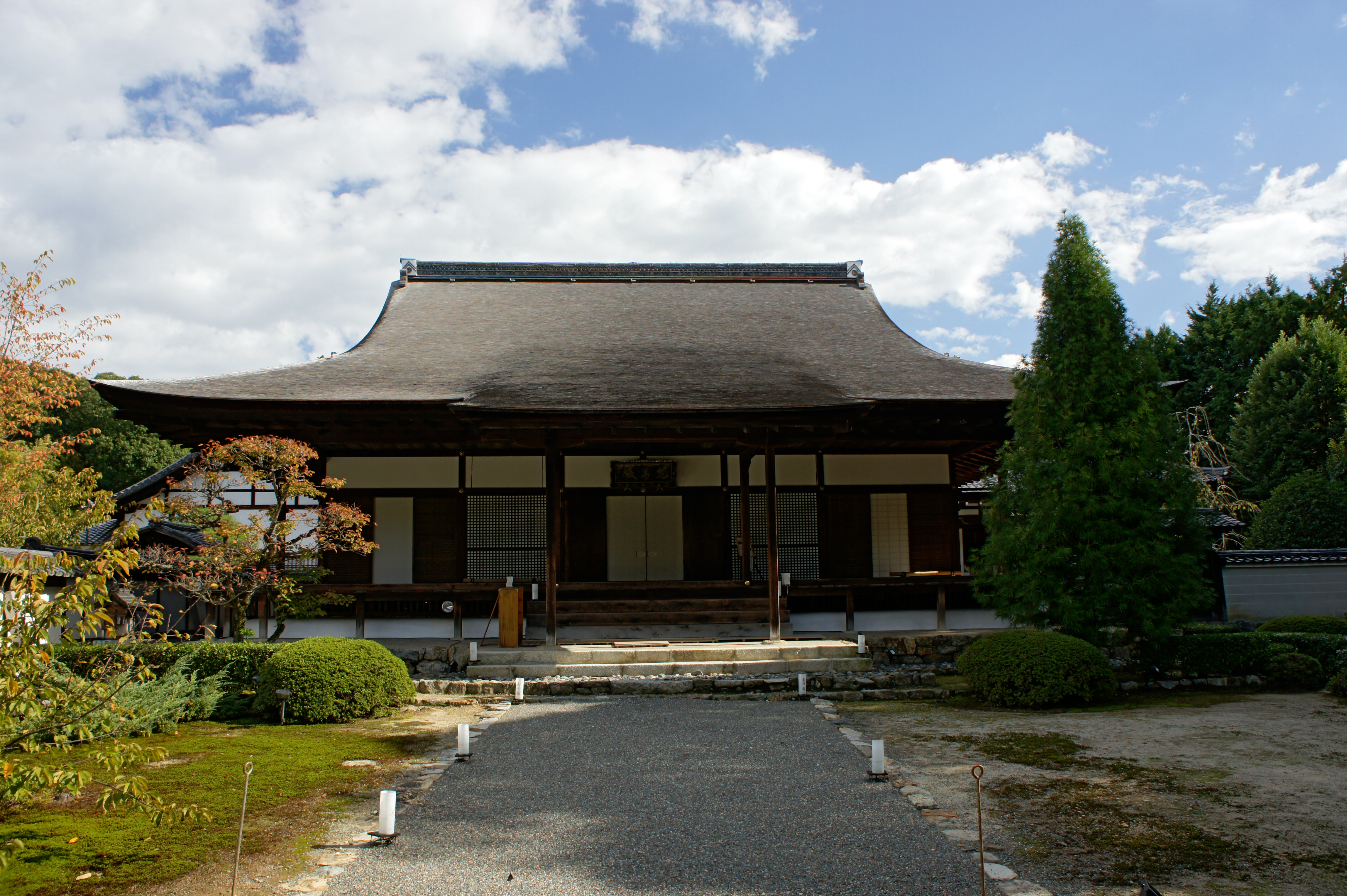 Unryu-in in Higashiyama-ku, Kyoto, Kyoto prefecture, Japan